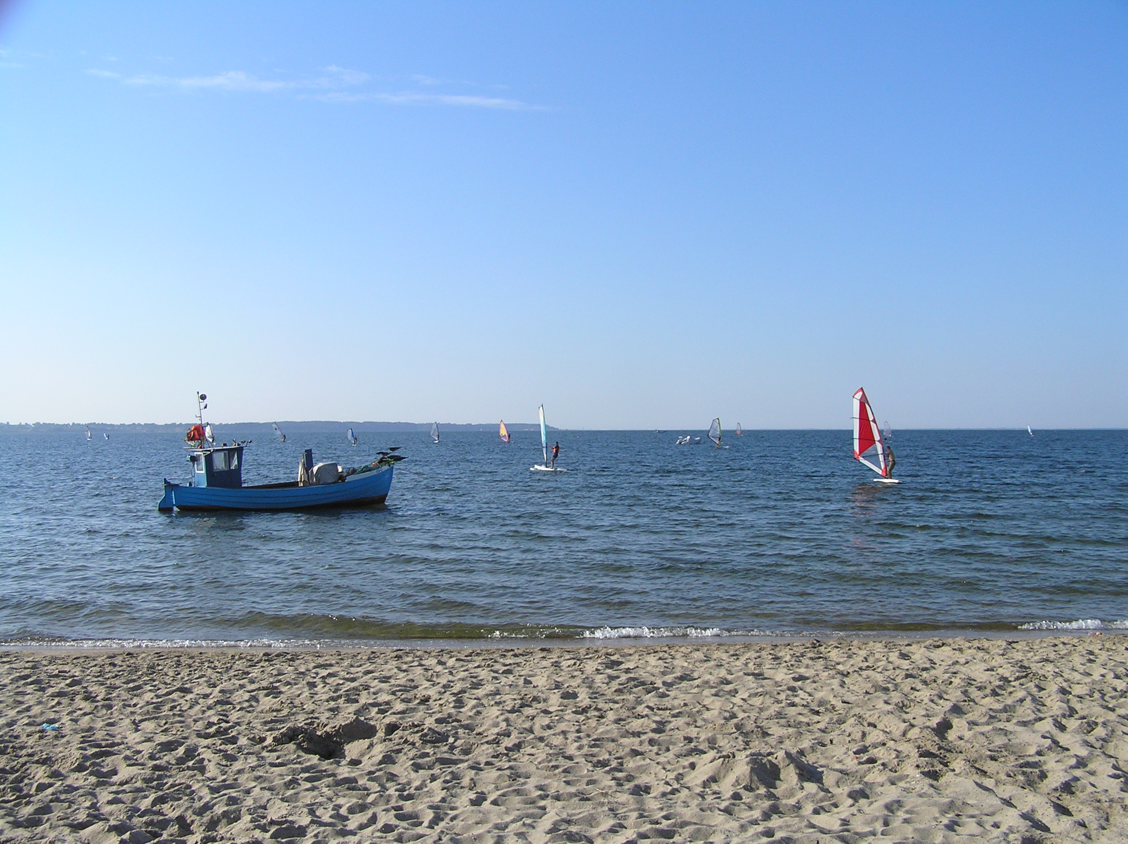 Windsurfers in Rewa